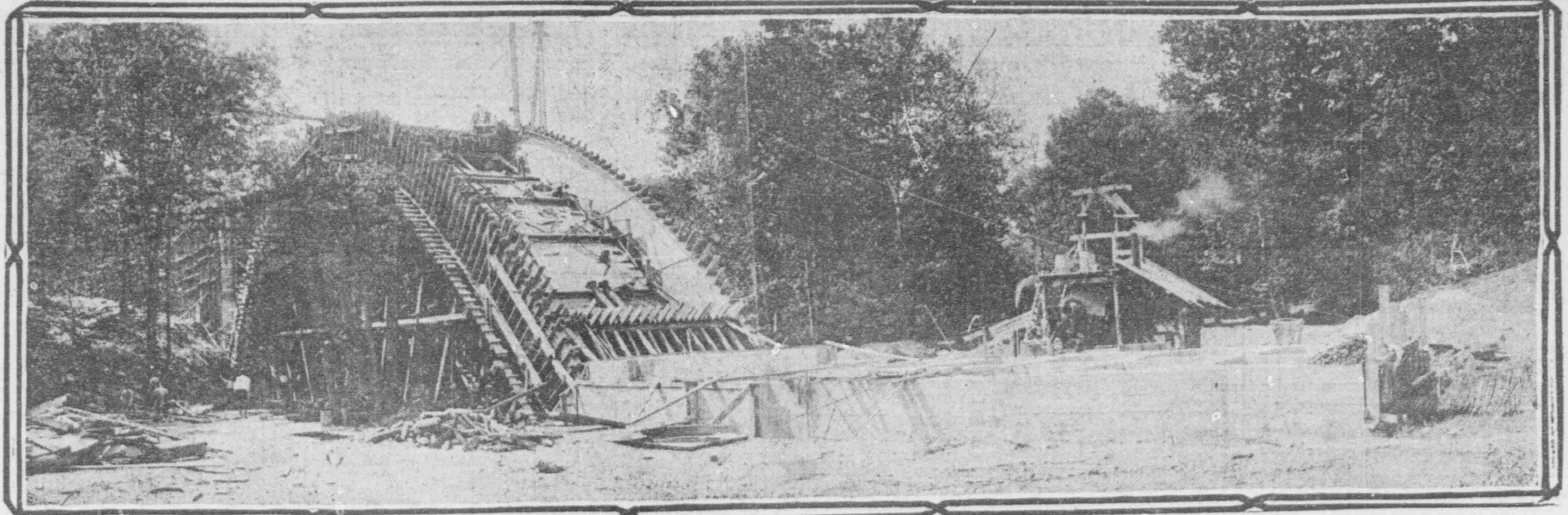 Bridge carrying Sixteenth Street, NW over the Piney Branch, shown under construction in the 9/2/06 "Washington Times" .